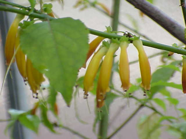 Species: Halleria lucida Family: Scrophulariaceae Image No. 1